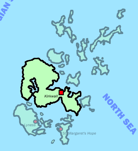 A map of the Orkney Islands centred on Kirkwall.